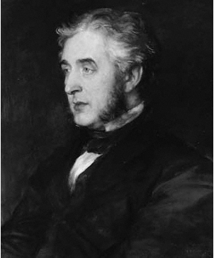 Portrait of Francis Napier